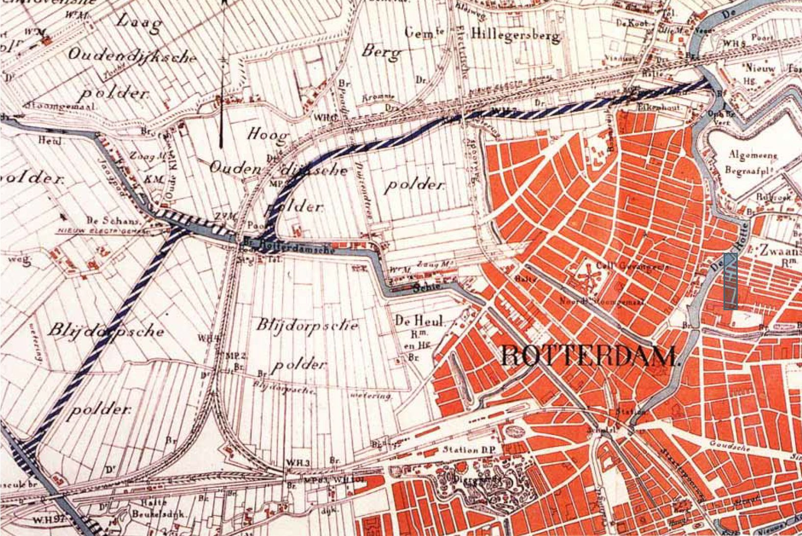 Kanalenplan door A.C. Burgdorffer, 1917